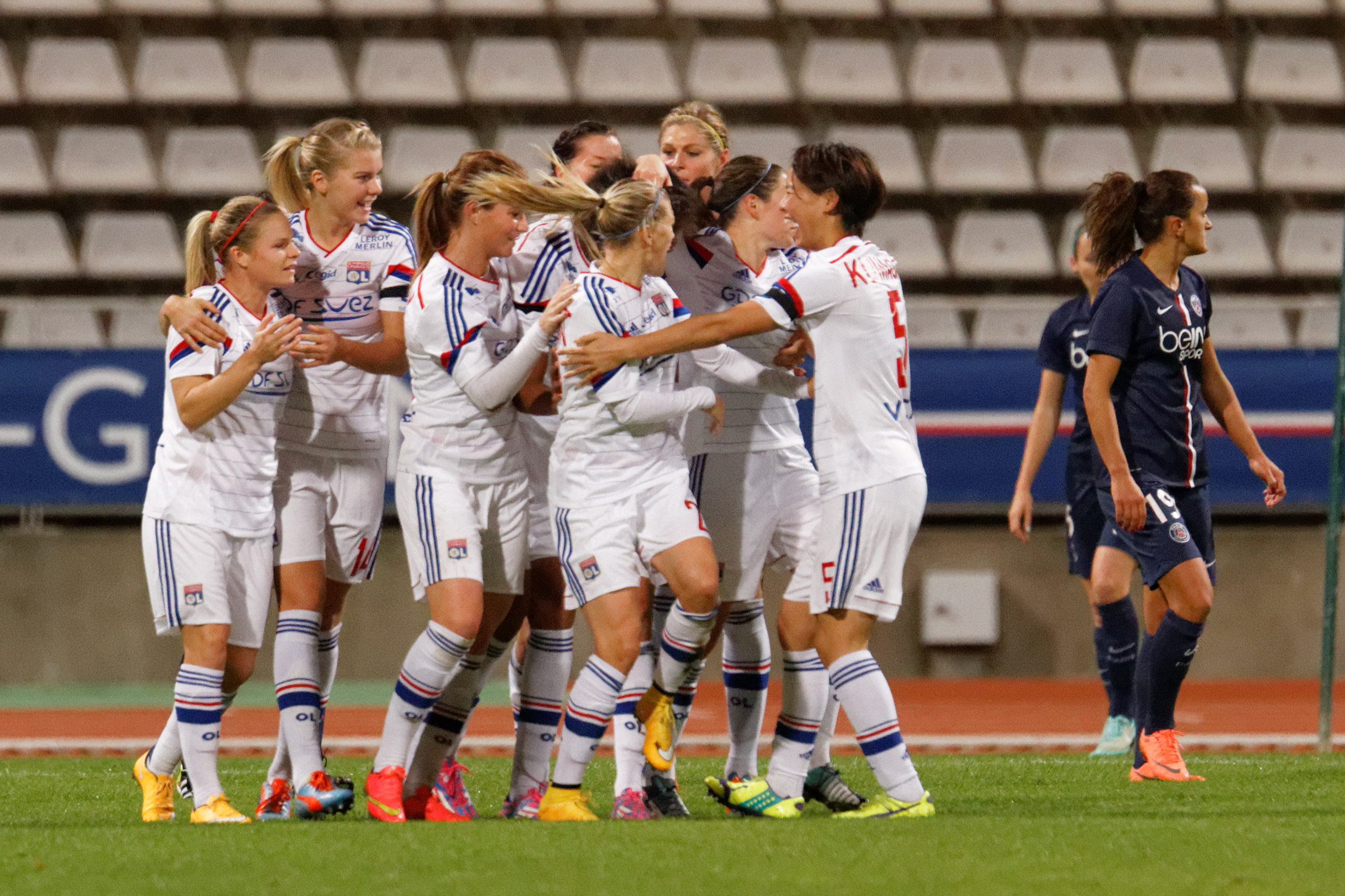 UEFA Women's Champions League, PSG - Lyon, 8 November 2014.